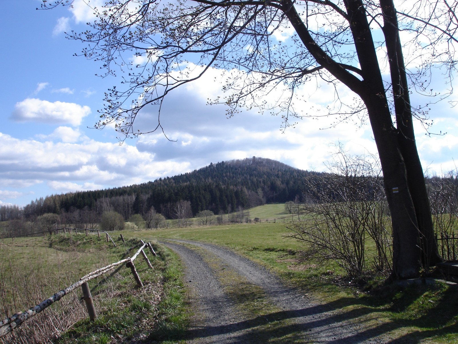 view to mountain Vlčí hora in Lužické hory (Lusatian mountains), czech republic